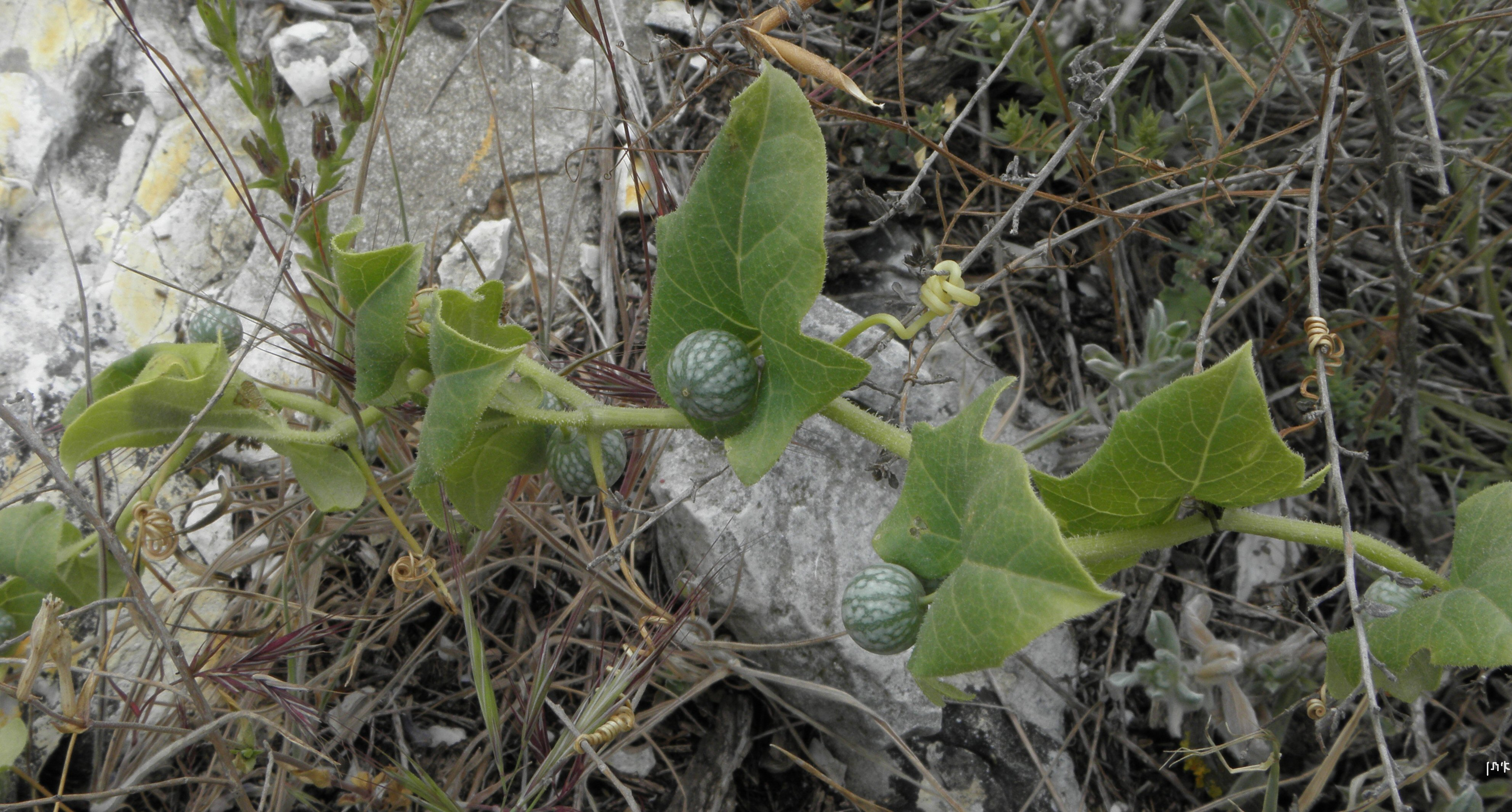 Bryonia syriaca, fruits פרות של דלעת-נחש סורית